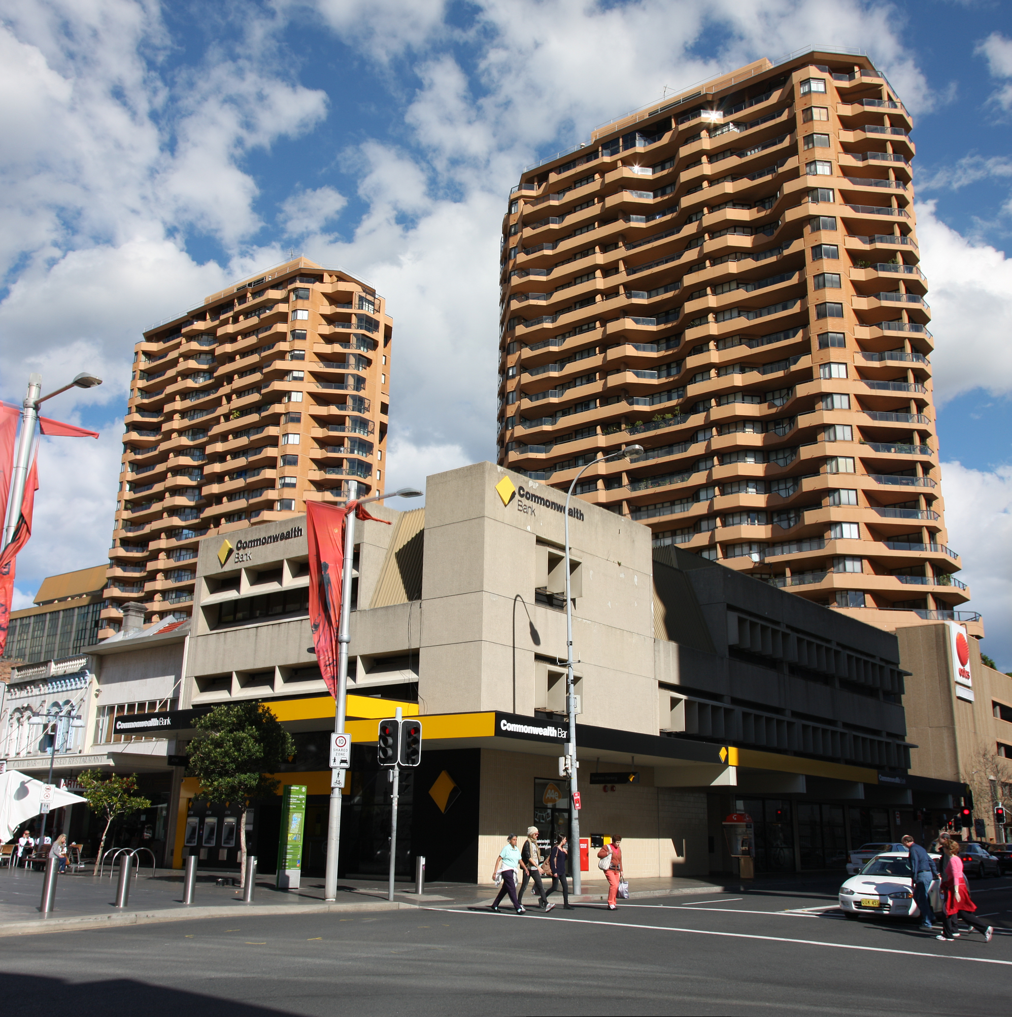 Apartments and commercial area bondi junction